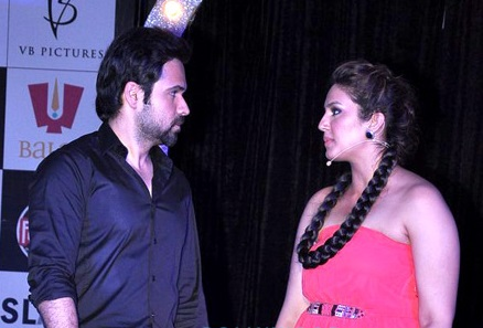 Promotions of 'Ek Thi Daayan' at R City Mall